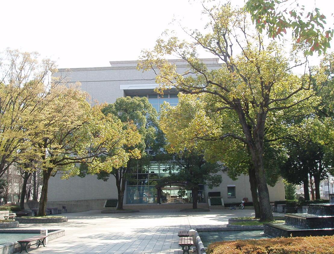 The Library of Takasaki City University of Economics. Located in Takasaki, Gunma, Japan.